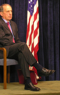 Welsh politician Kim Howells, a Member of Parliament and Minister of State from the Labour Party. At the time the photo was taken, he was a Minister of State for the Foreign and Commonwealth Office.